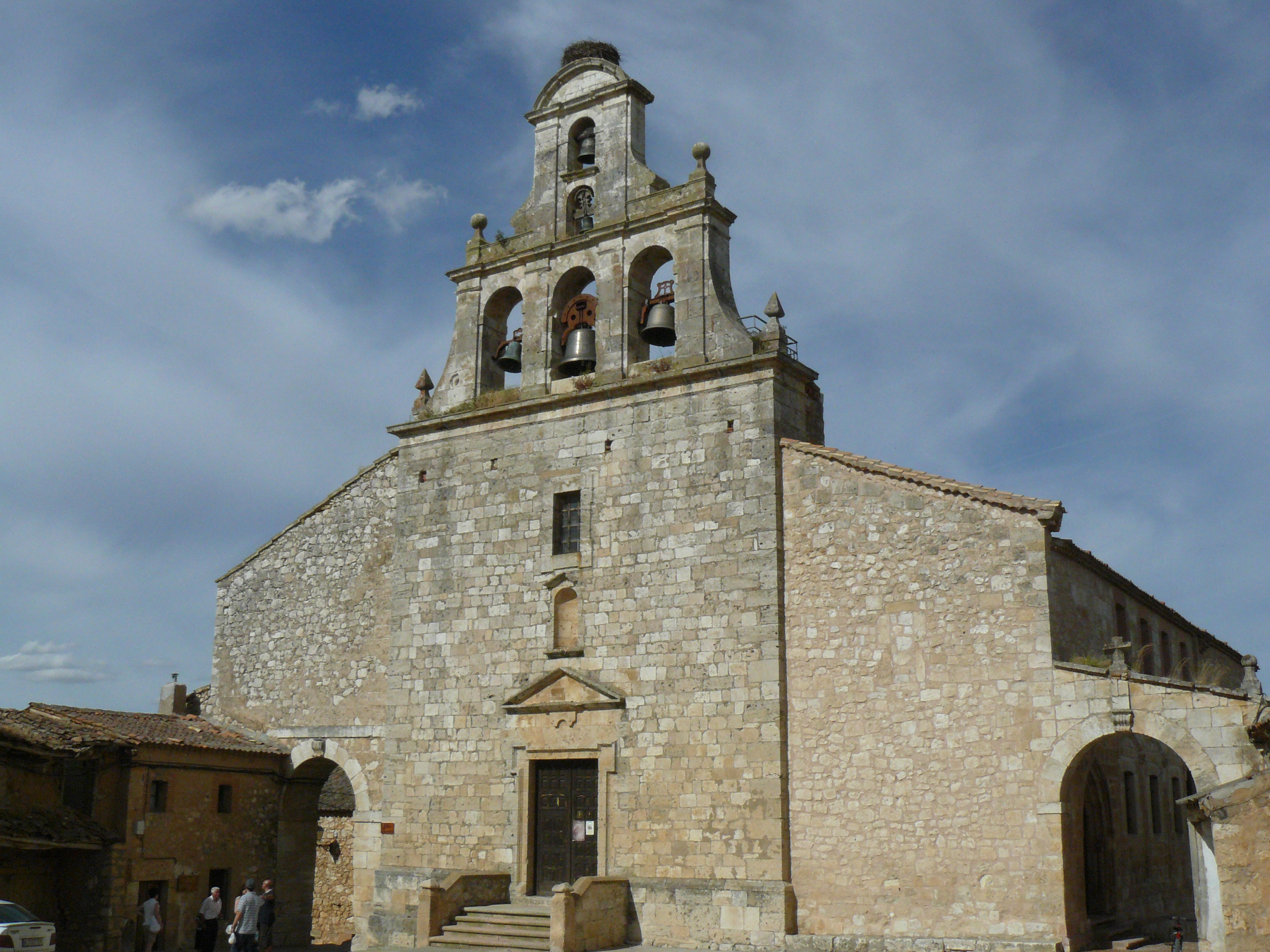 Church of Santa María, Maderuelo, Segovia (Spain)